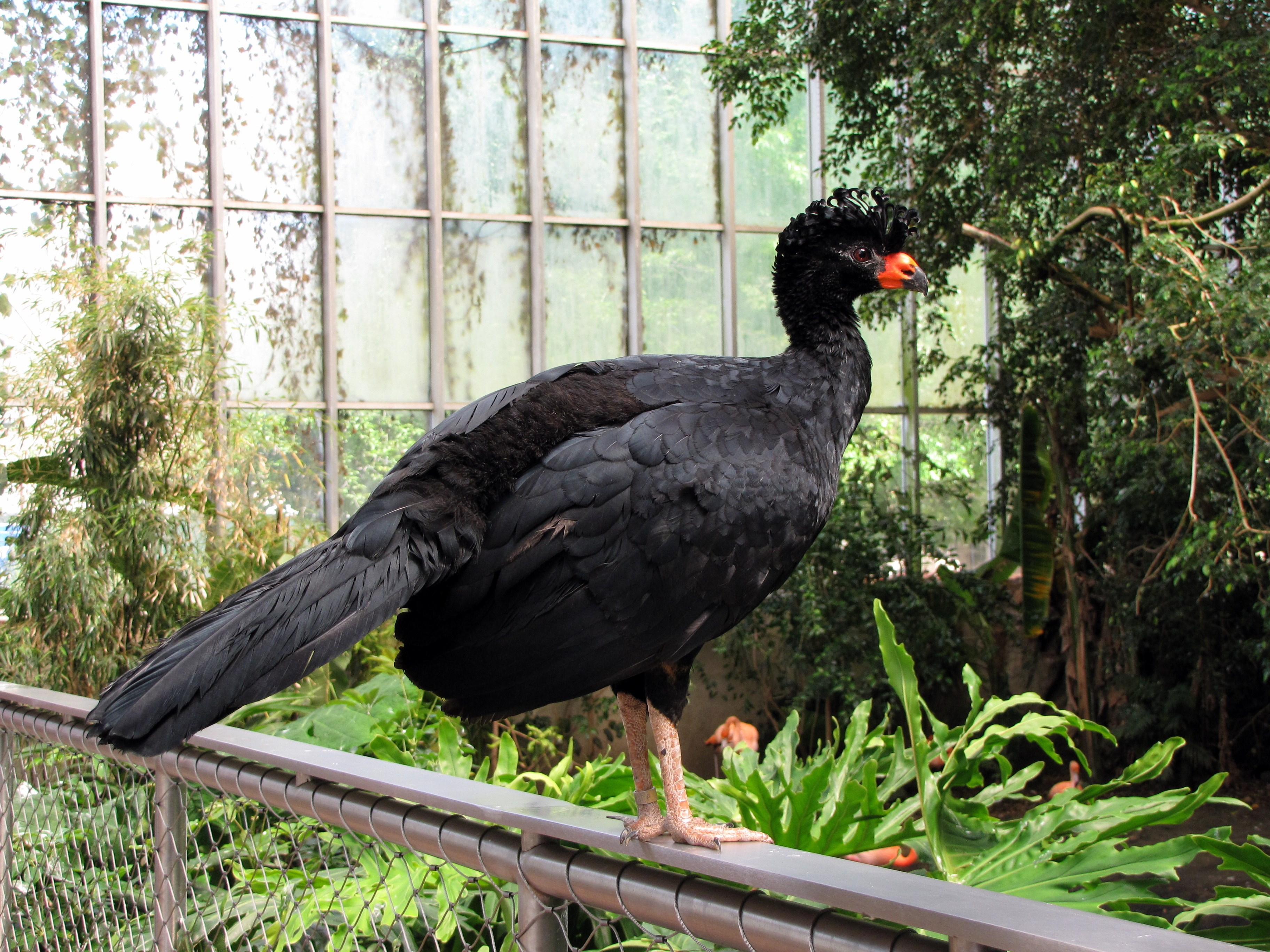 Female Wattled Curassow (Crax globulosa) at the National Aviary.